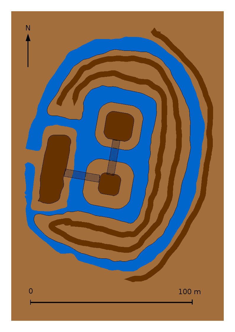 A diagram of the Danish castle ruin Eriksvolde. Also available as .